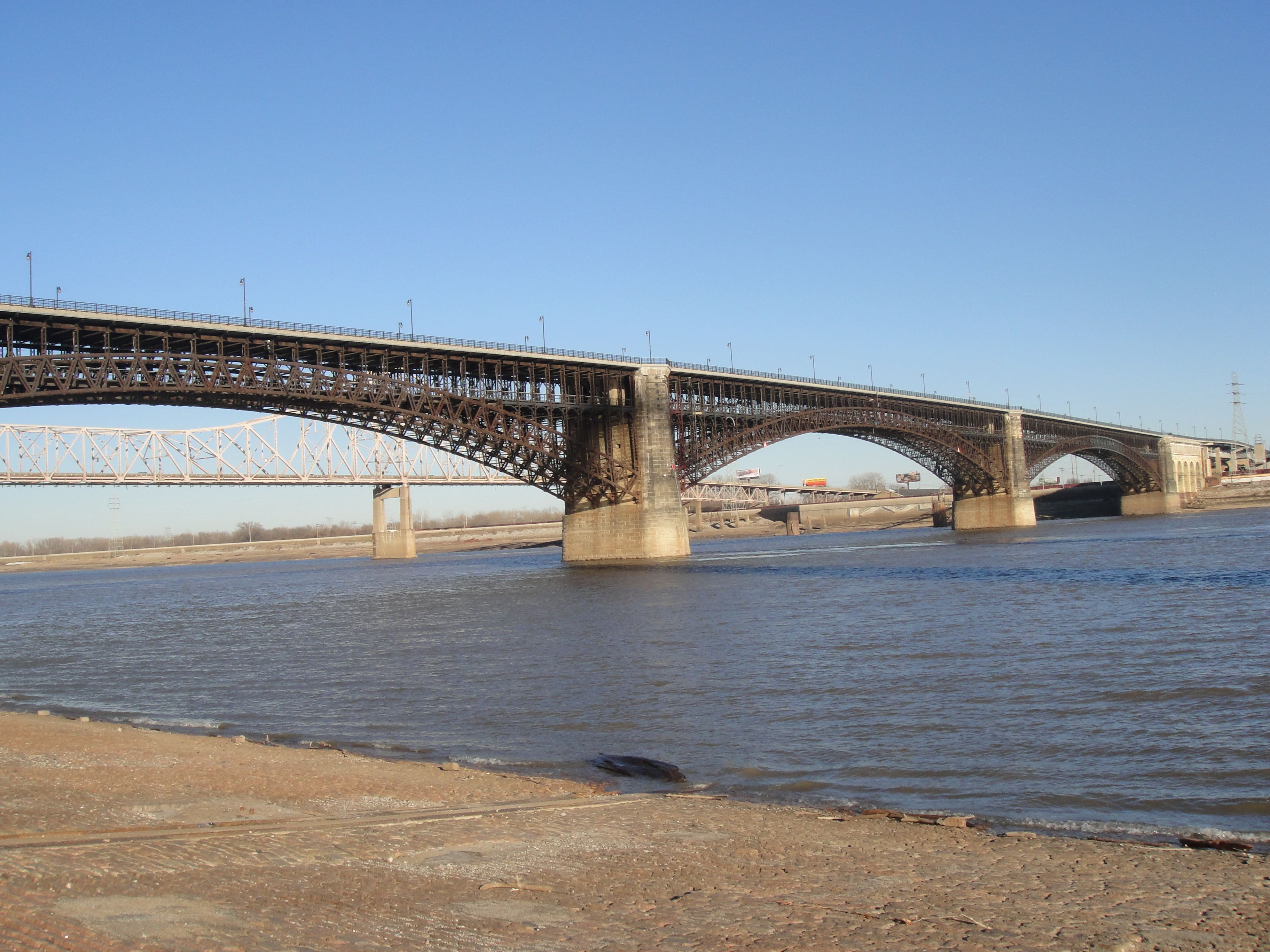 The Eads Bridge is a combined road and railway bridge over the Mississippi River at St. Louis, connecting St. Louis and East St. Louis, Illinois.